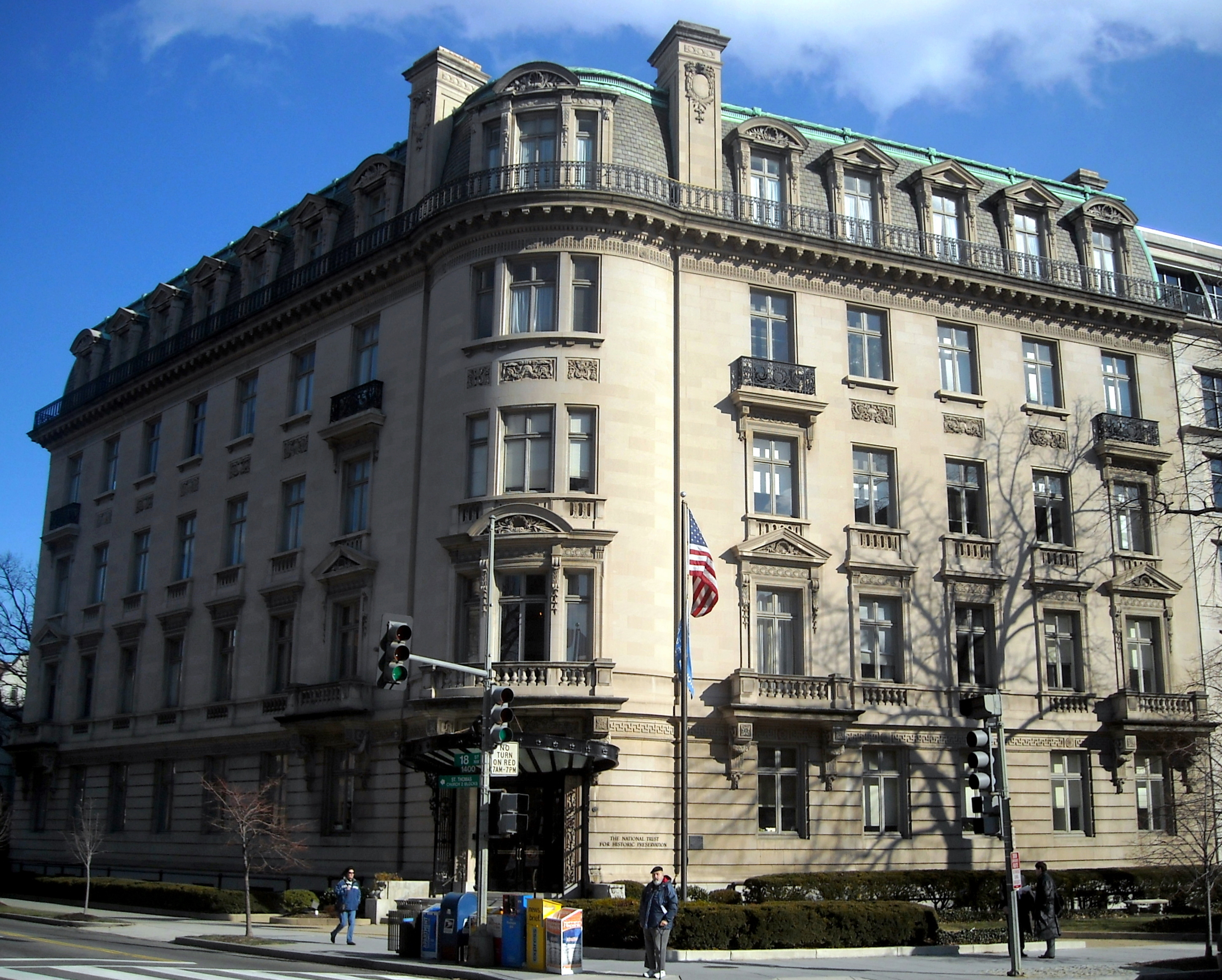 The Andrew Mellon Building located at 1785 Massachusetts Avenue, NW in the Dupont Circle neighborhood of Washington, D.C.